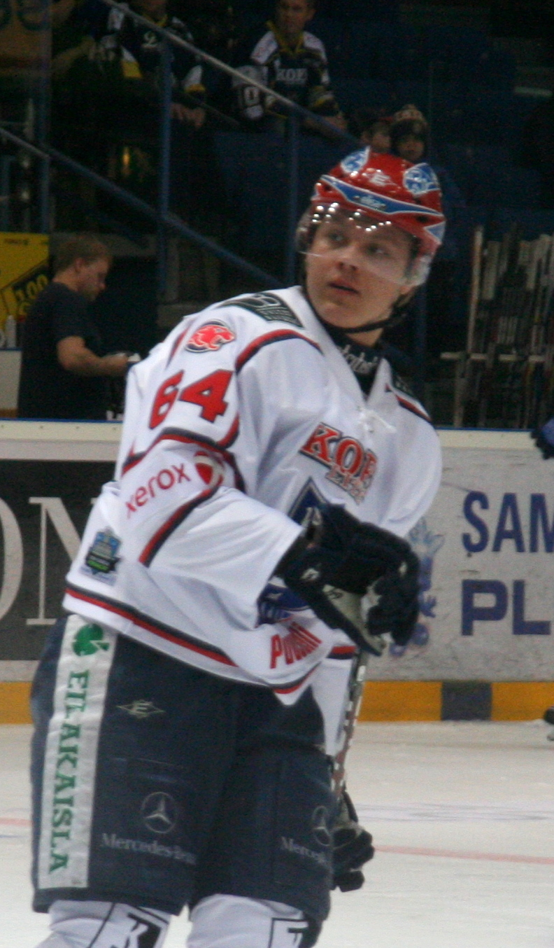 Ice Hockey Team Helsingin IFK's Attacker #64 Mikael Granlund